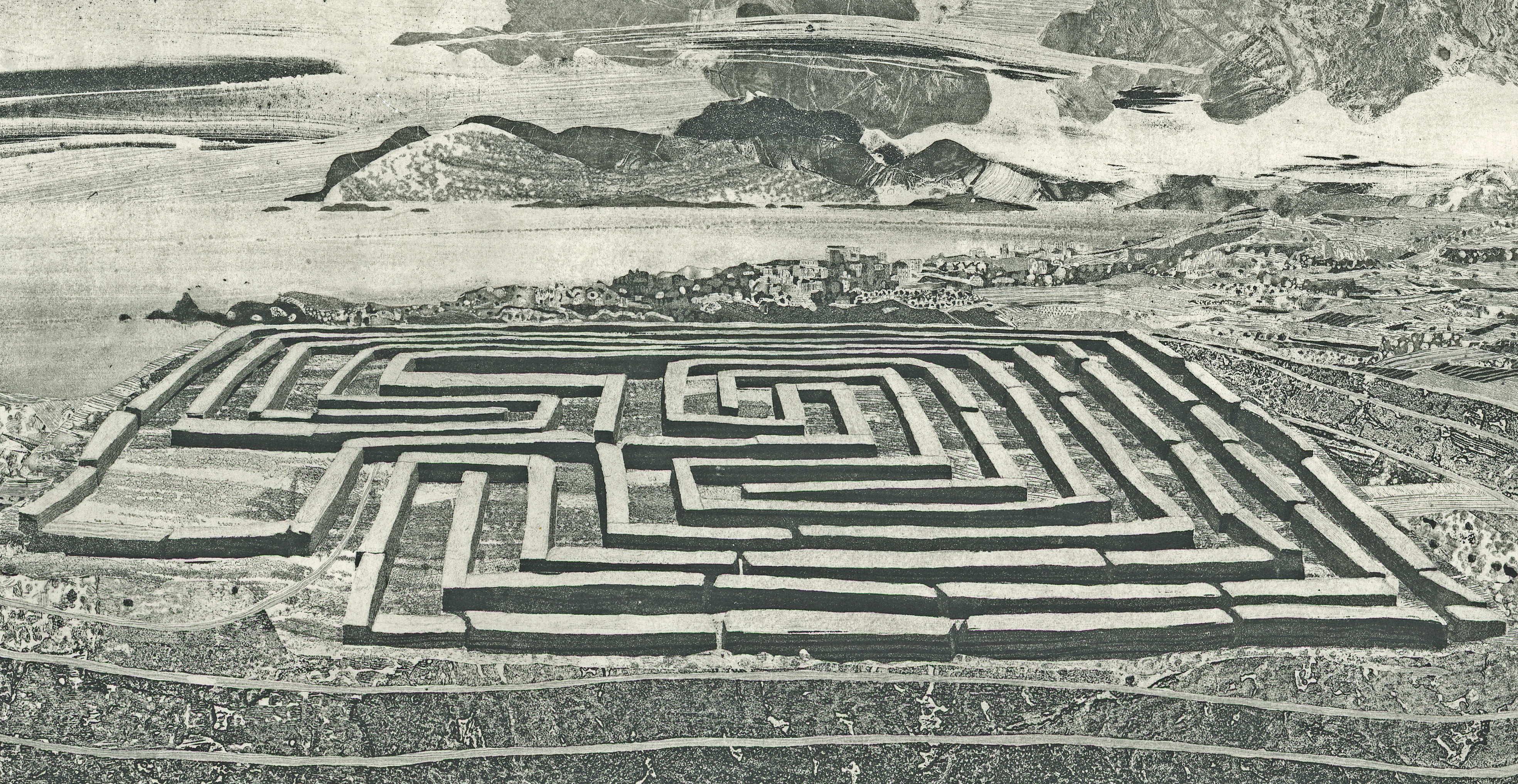 Labyrinth 16, etching, by Toni Pecoraro.